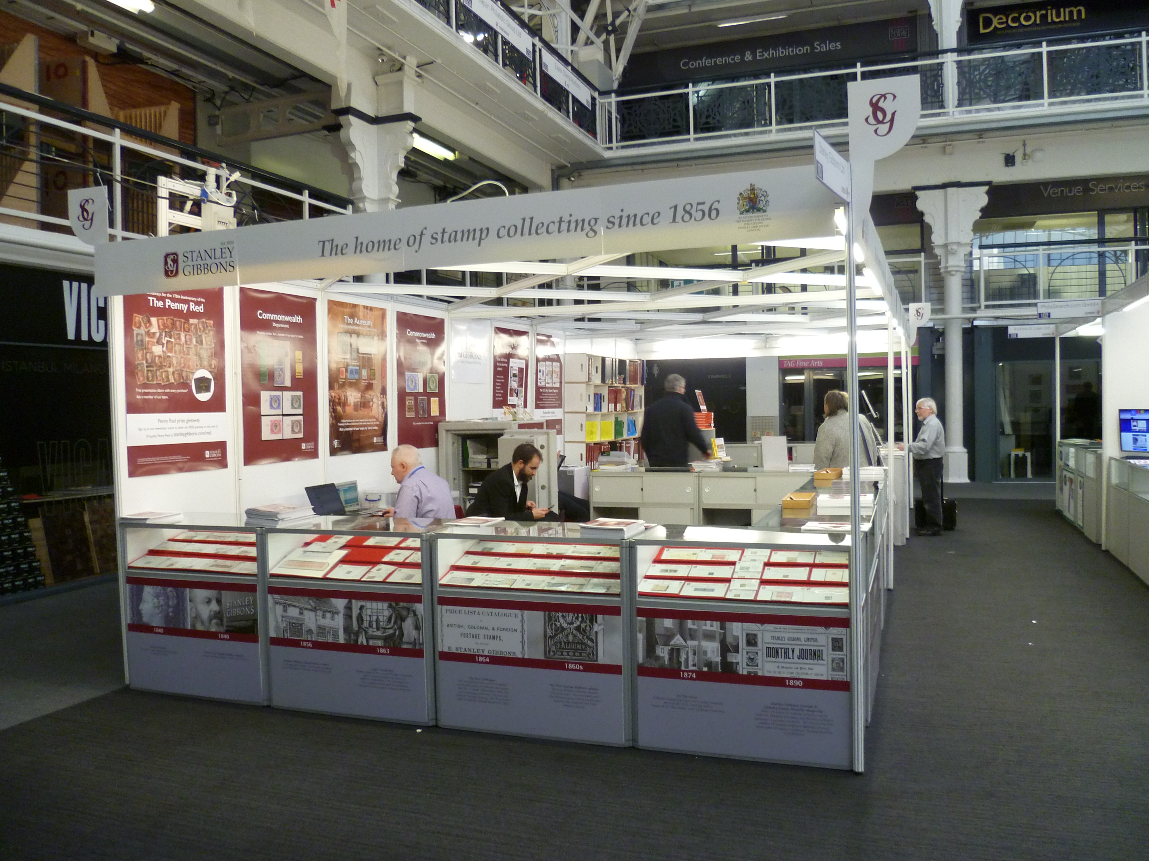 Stanley Gibbons at Spring Stampex 2016